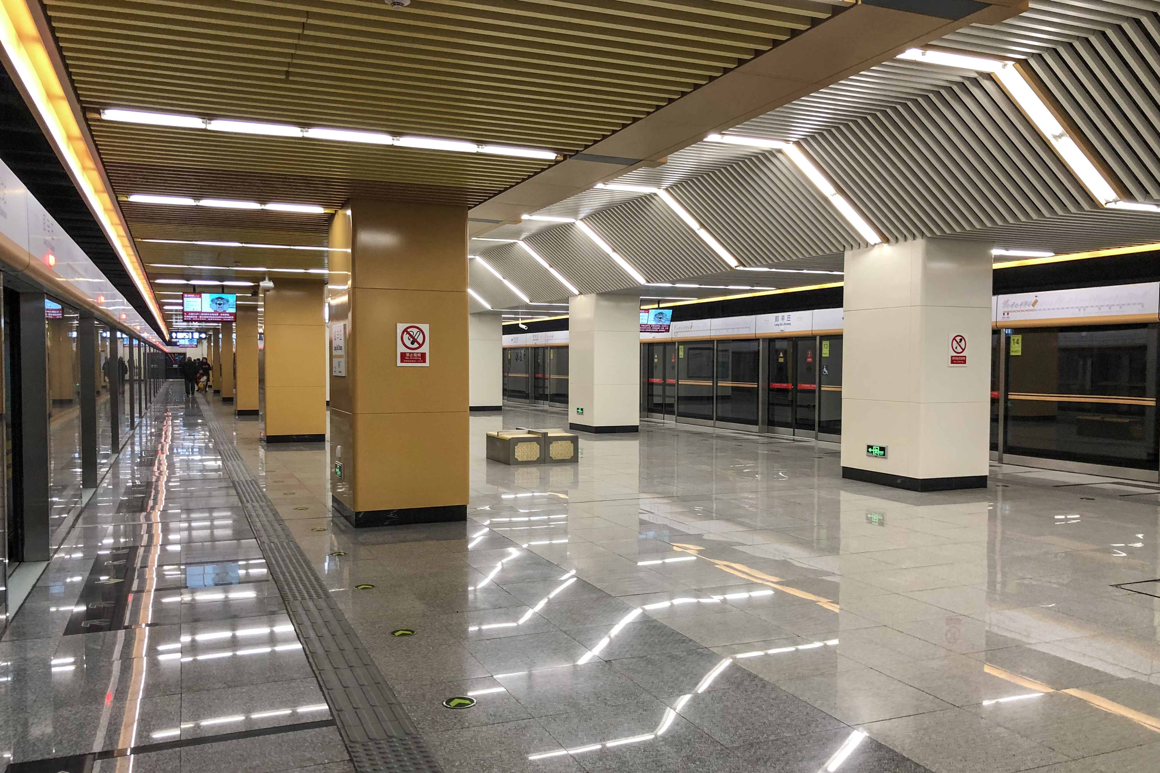 Long Sun Chong Station, with color scheme like Line 6. Langxinzhuang reminds me of 753... not that festival.